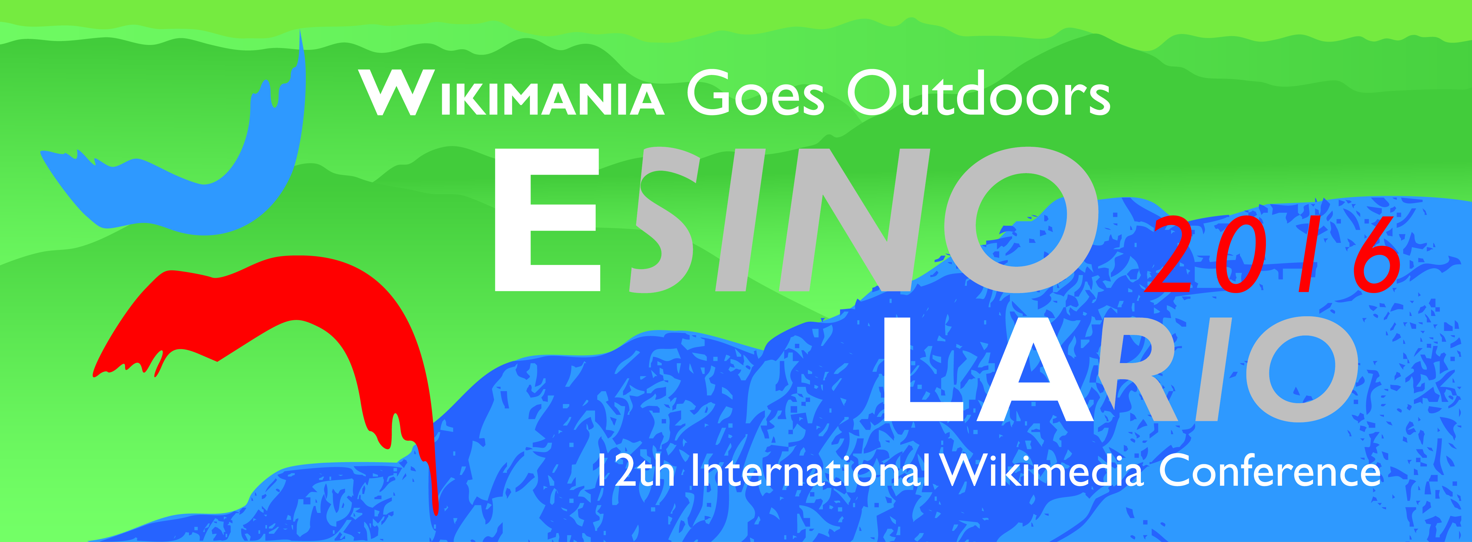 Log Wikimania Esino Lario landscape